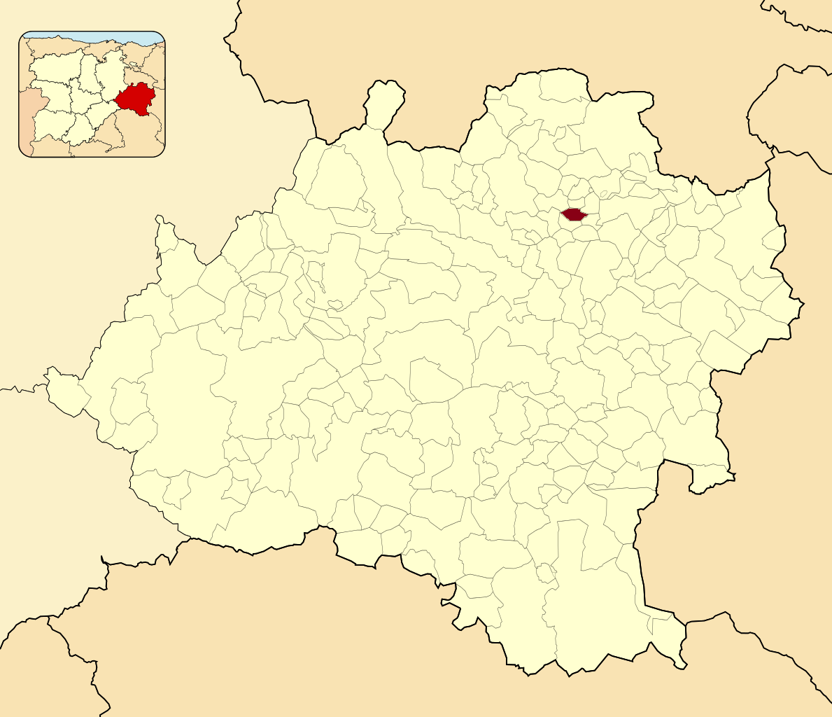 Location map of the municipality of Aldealpozo in Province of Soria, Spain